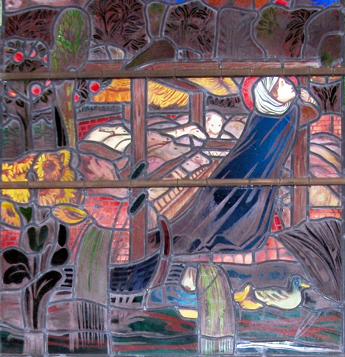 St Frideswide hides from King Algar amongst swine: part of the St Frideswide window at Christ Church, Oxford